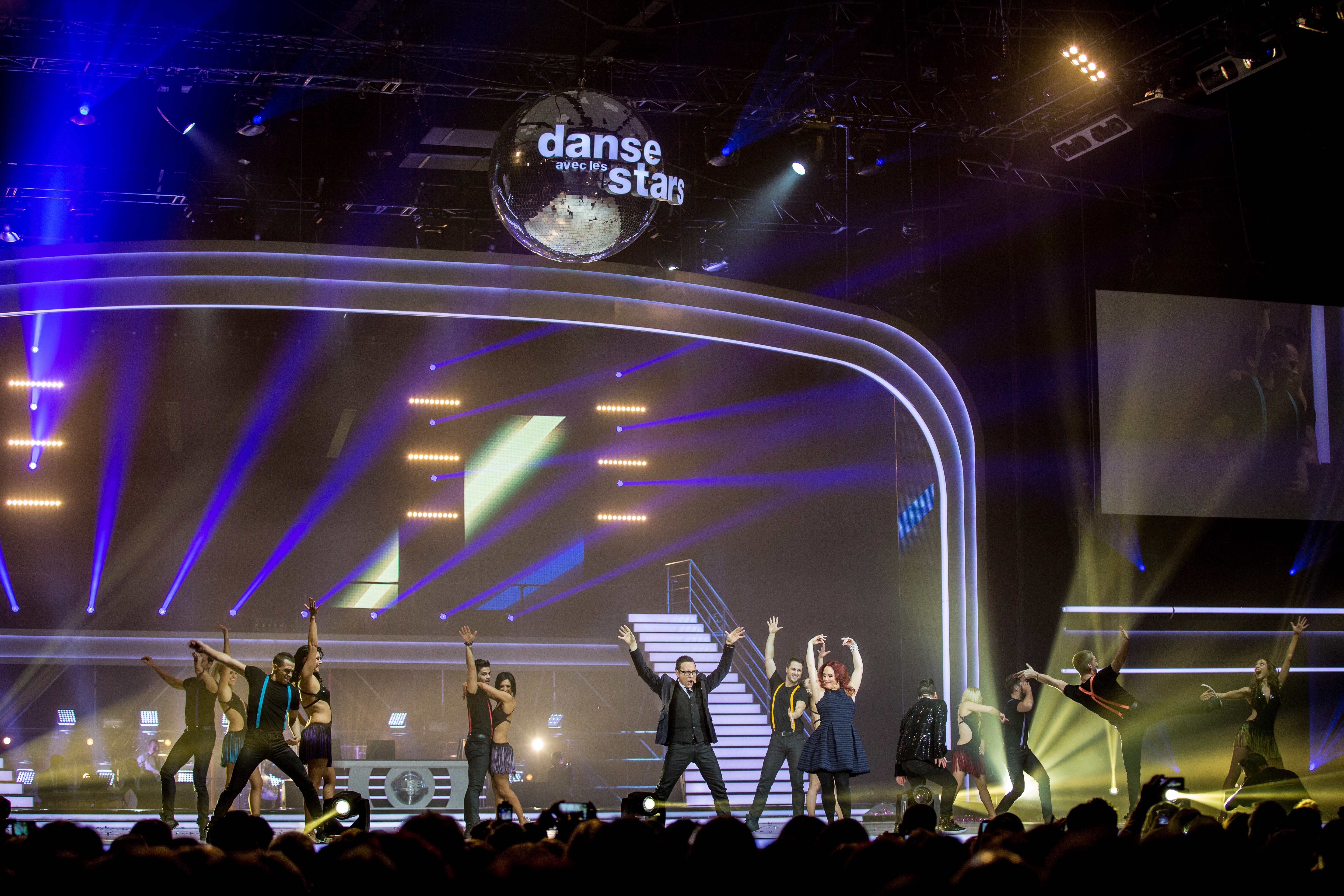 Galaxie d’Amnéville – Danse avec les stars du 8 février 2014